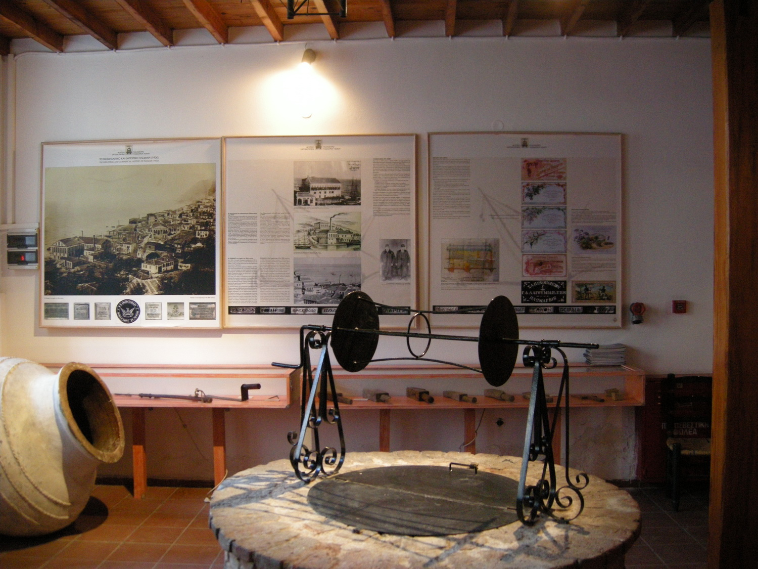 Veniamin Lesvios club building